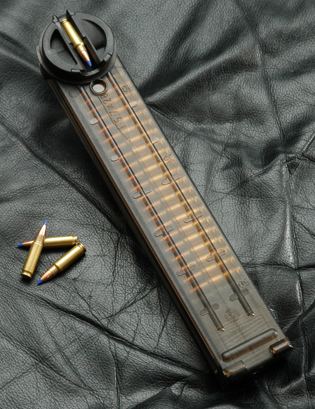 FN P90 magazine loaded with FN 5.7×28mm SS197SR cartridges.